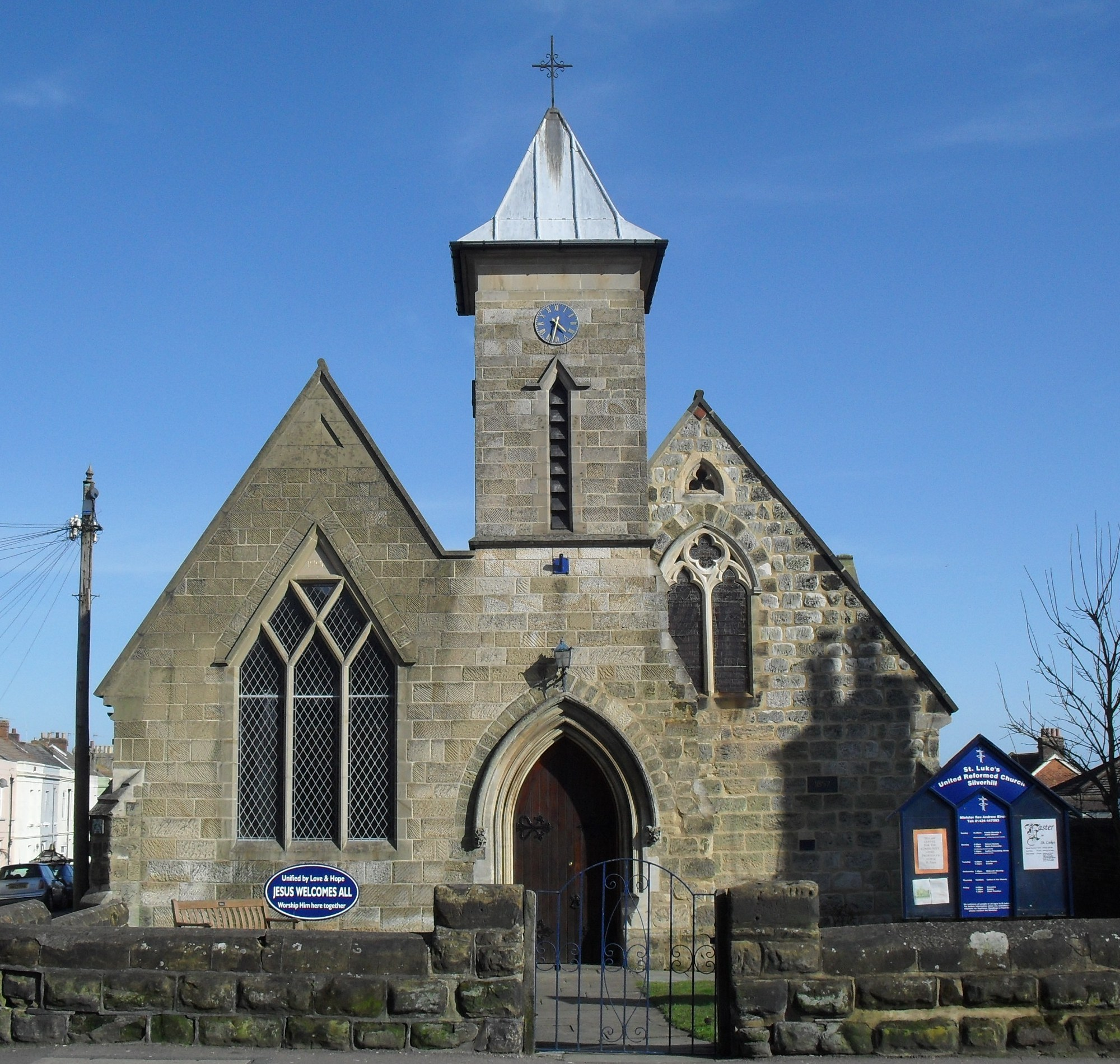 St Luke's United Reformed Church, Sedlescombe Road North, Silverhill, Hastings, East Sussex, England. Built in 1857 by Henry Carpenter as one of the first Presbyterian churches in southeast England.